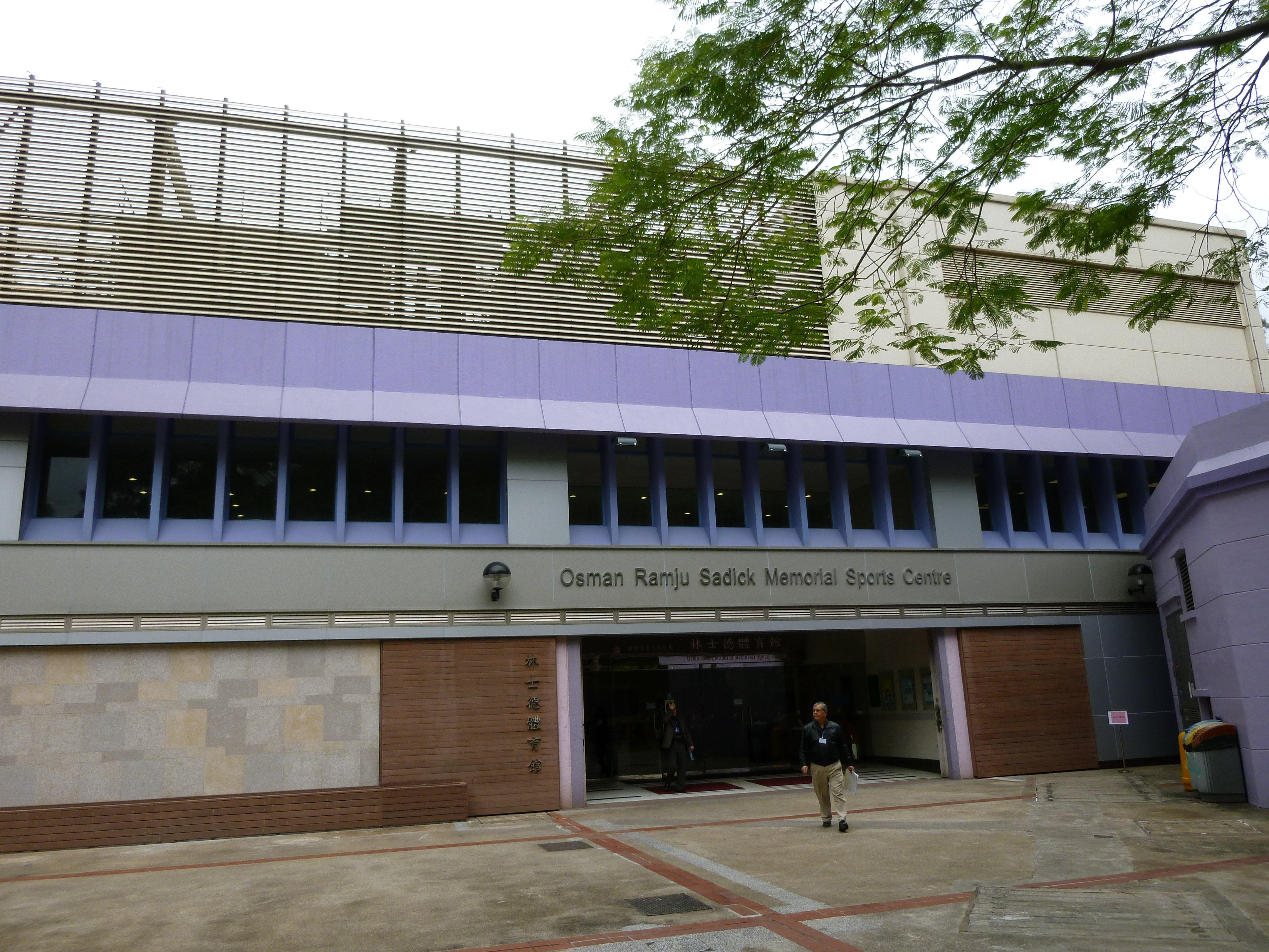 Osman Ramju Sadick Memorial Sports Centre (176 Hing Fong Road, Kwai Fong, Hong Kong)